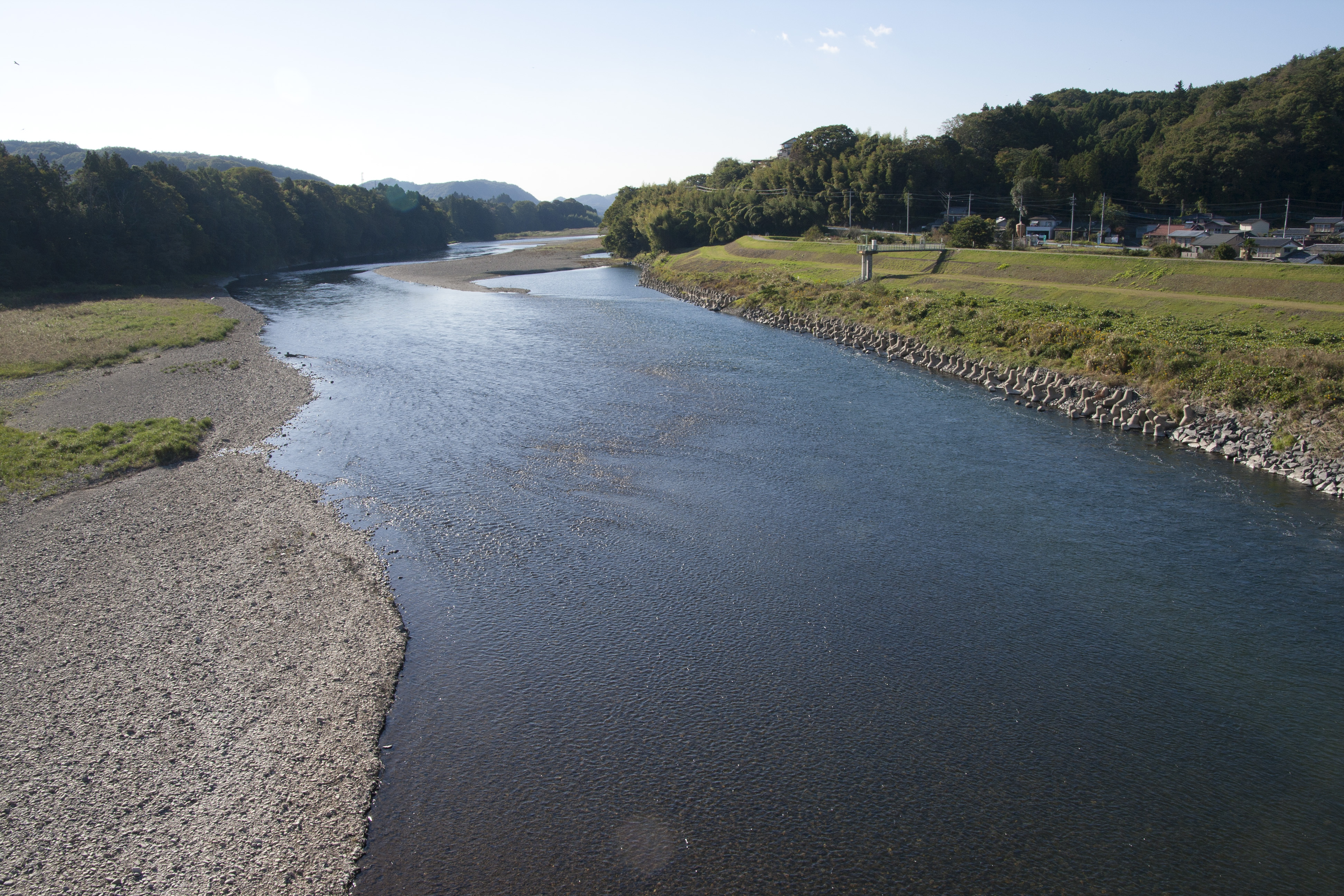 Naka river(Naka-gawa 那珂川), Hitachi-Omiya City, Ibaraki Prefecture, Japan.